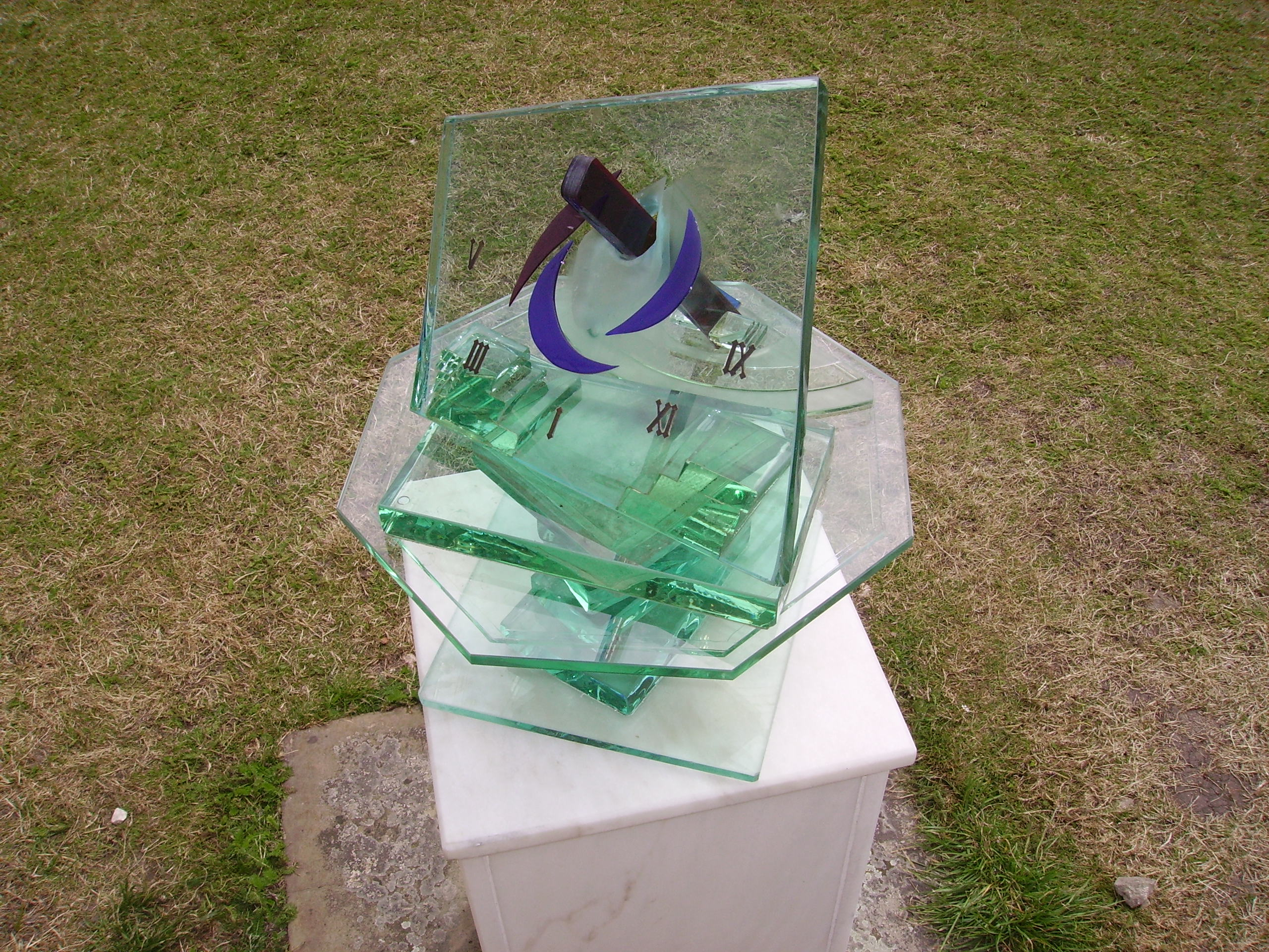 view of Chichester, United Kingdom